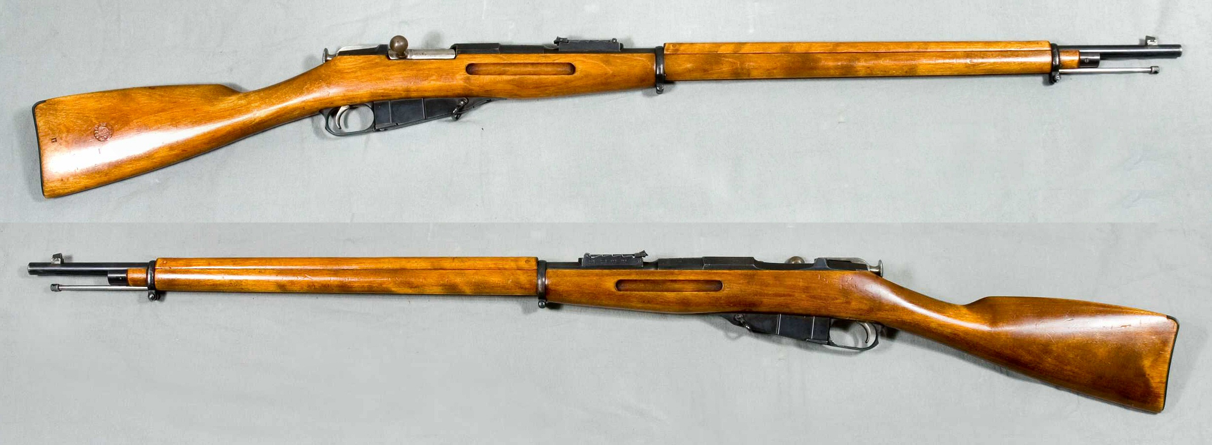 Mosin-Nagant Infantry Rifle Model 1891, Russia. Caliber 7.62x54mmR. From the collections of Armémuseum (Swedish Army Museum), Stockholm, Sweden.